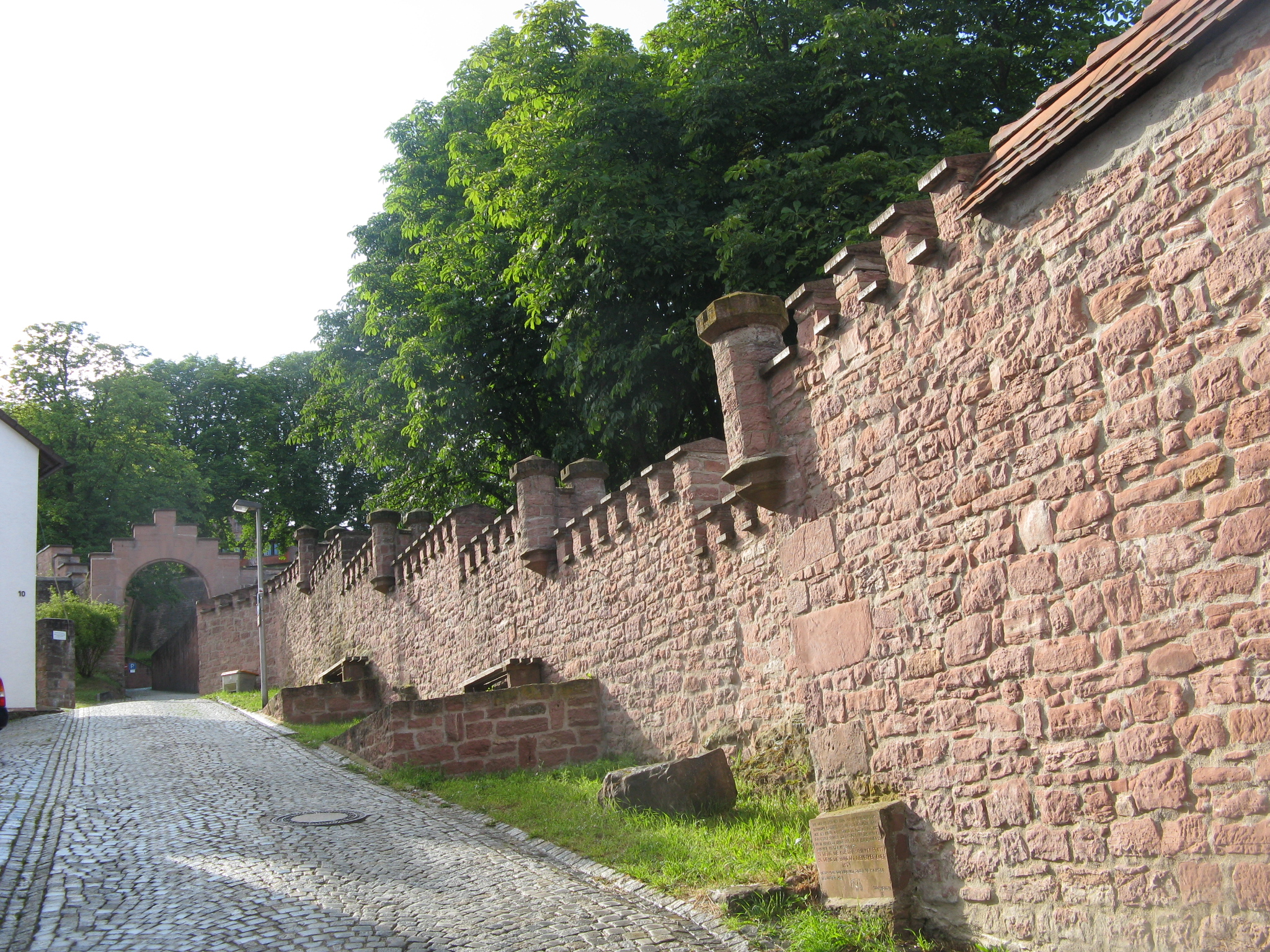 Access to Rieneck Castle (Bavarian Spessart/Germany), walls